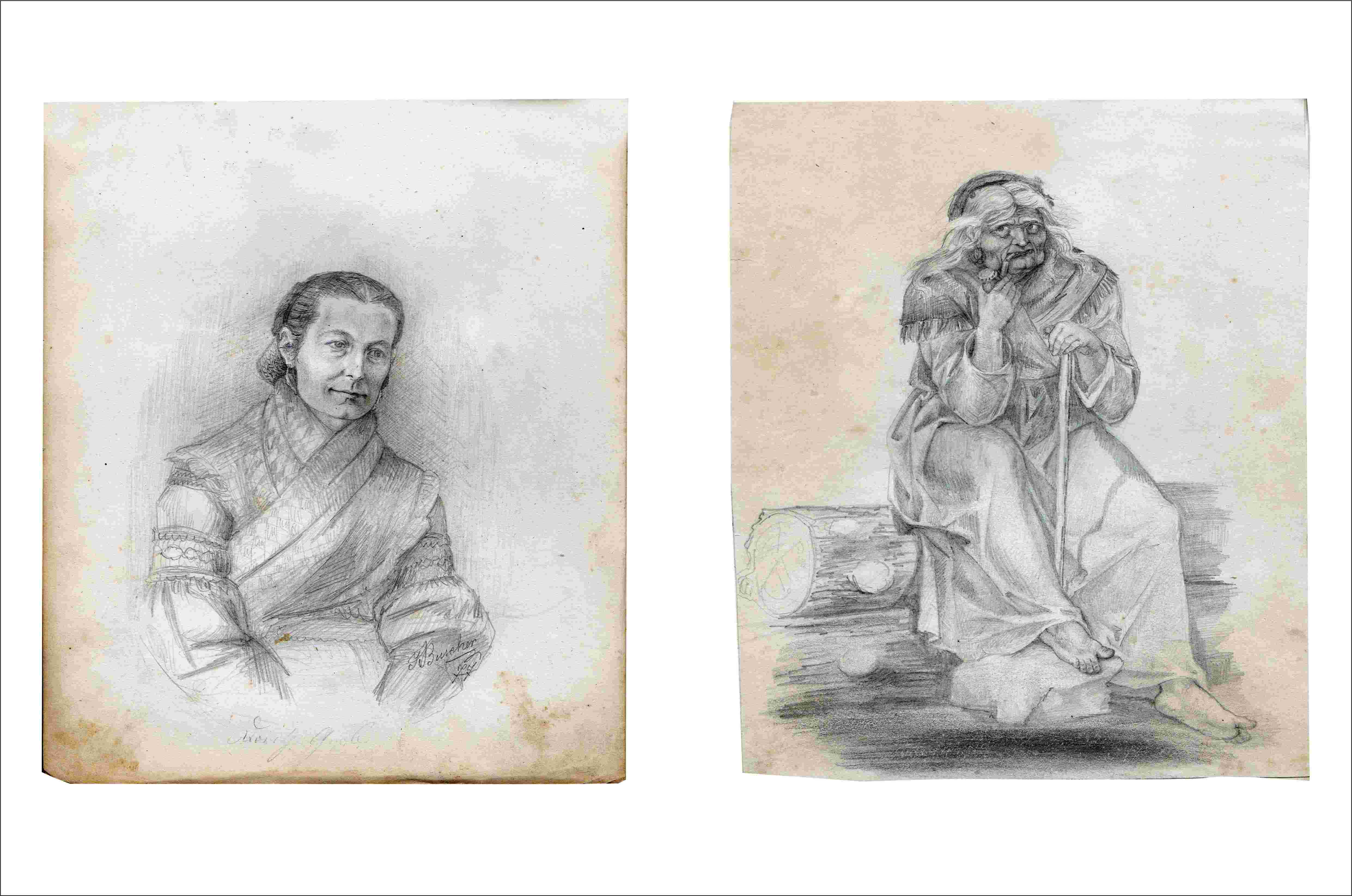 Drawings in the drawing book of 1876/77, left “Dorith Grab”, right “Old woman on tree trunk with pipe”